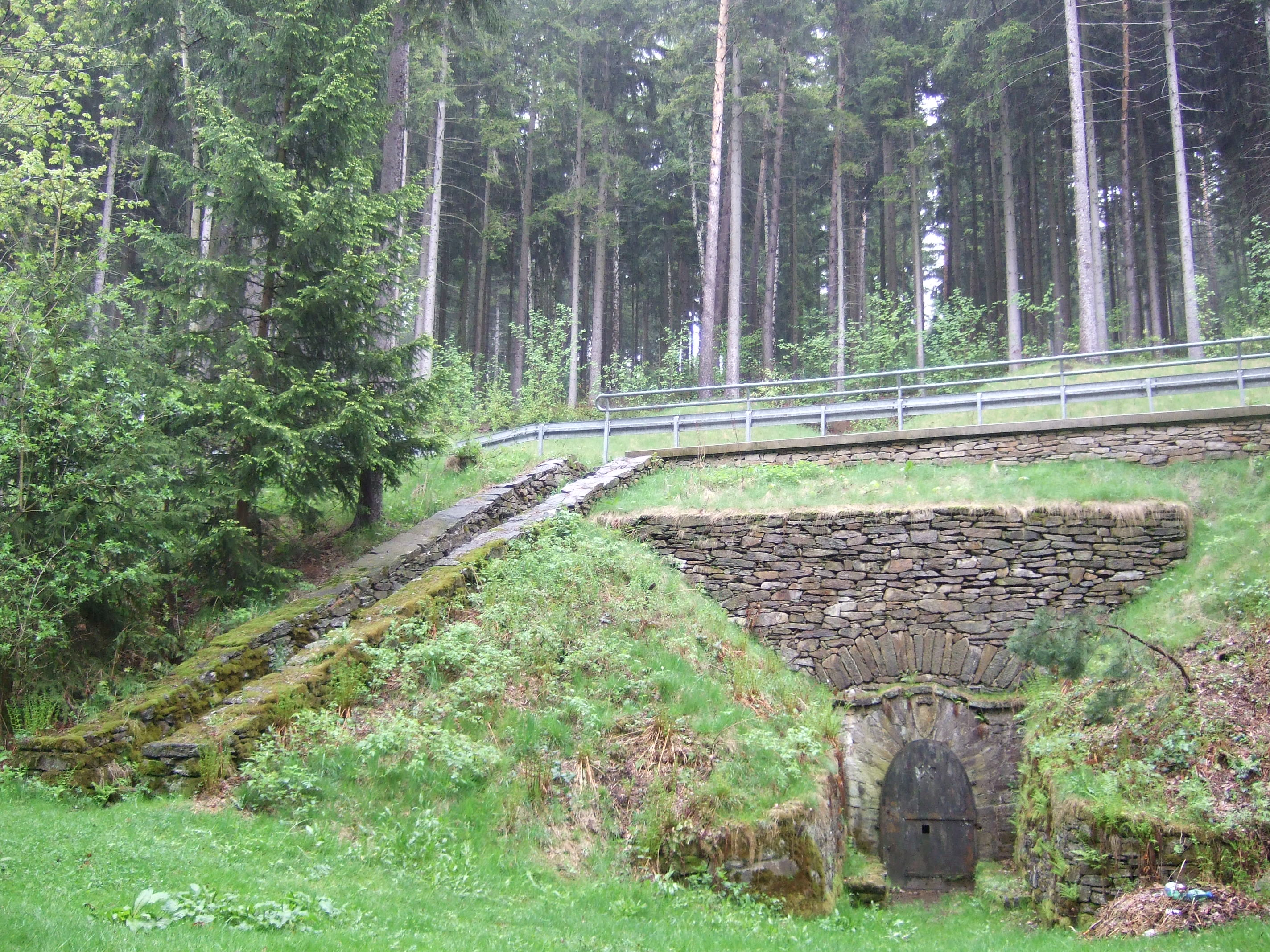 Oricife of the Thelersberger Stolln (Thelersberg Adit) with locked metal door next to stone steps (source name: dscf037116_Thelersberger_Stolln.jpg)